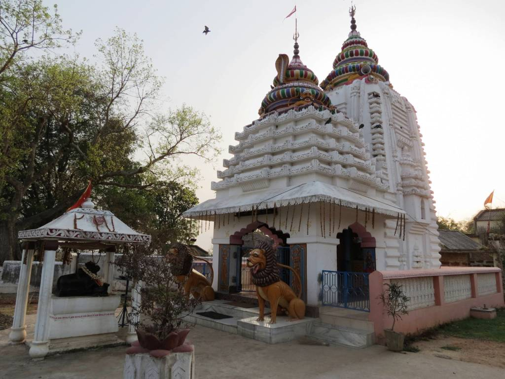 ଶୈଳେଶ୍ଵର ମନ୍ଦିର, ଶୈଲଙ୍ଗ